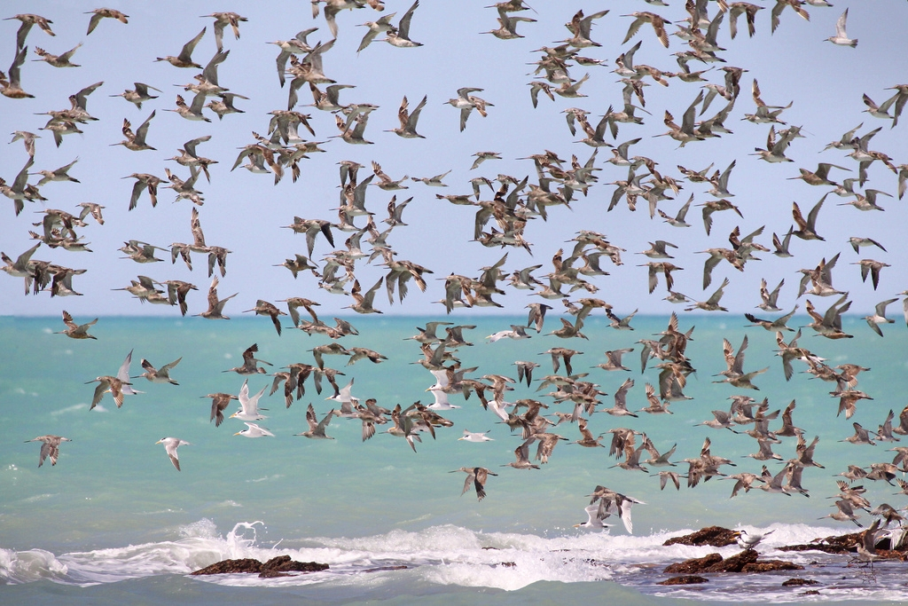 Limosa lapponica and Thalasseus bergii, flying in to a high tide roost in Roebuck Bay in Western Australia